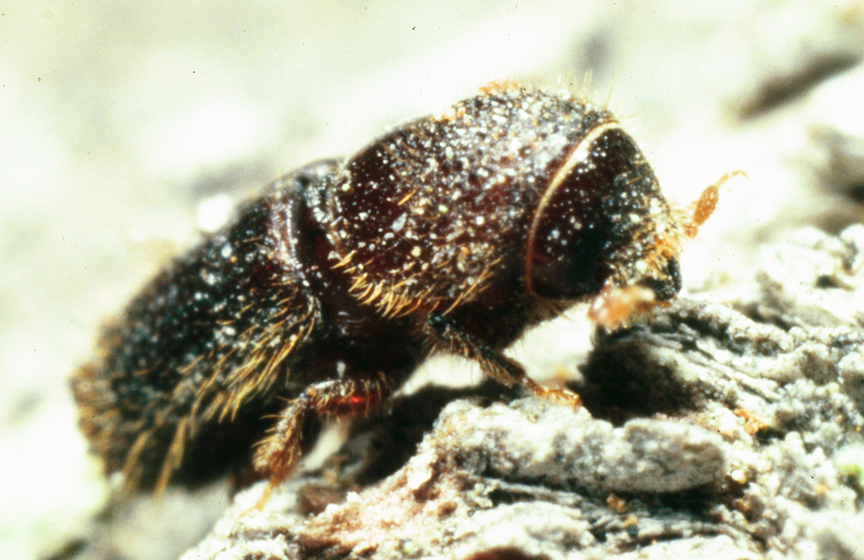 Ips latidens in Canada